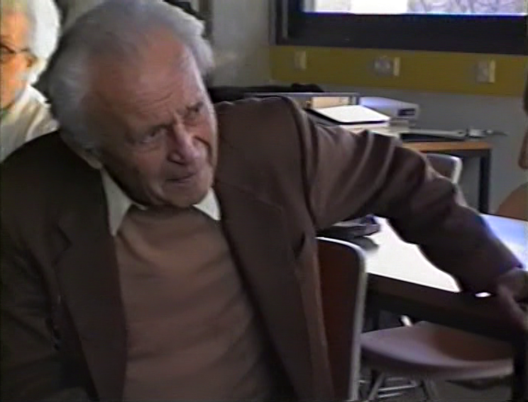 Gerhard Ruhenstroth-Bauer Director at the Max Planck Institute of Biochemistry in Martinsried Germany